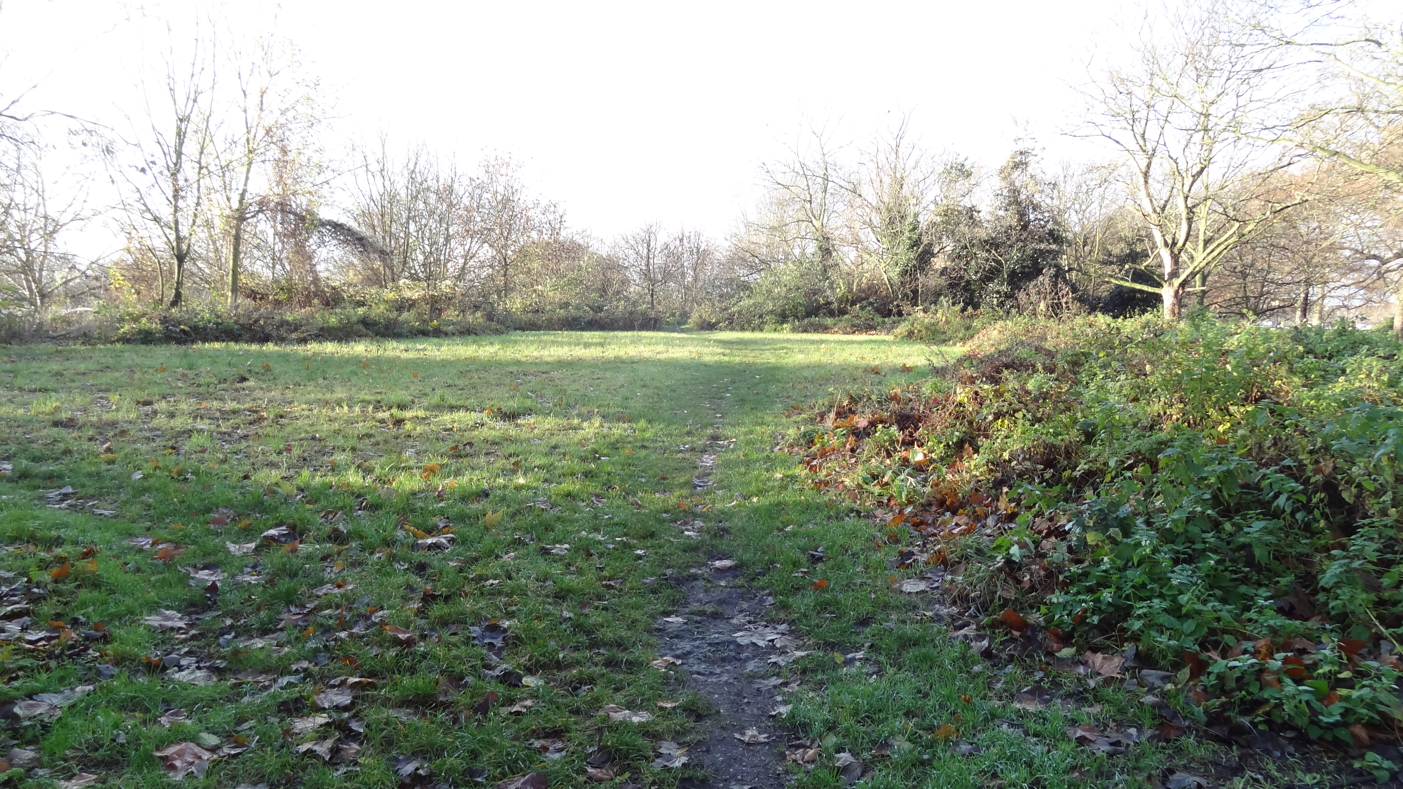 Nature areas in Battersea Park, Wandsworth, London